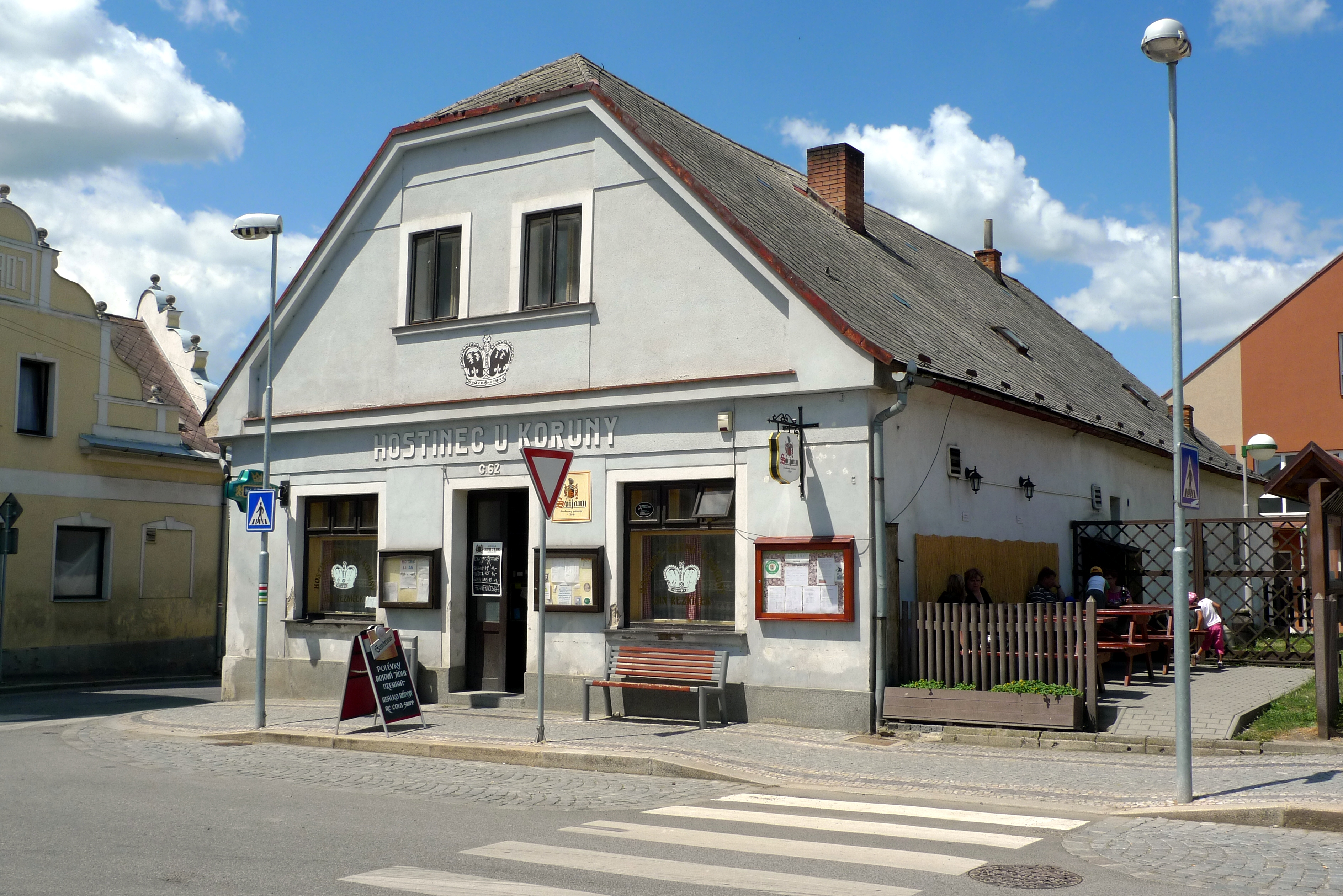 Pub U Koruny in Libáň, Czech Republic.